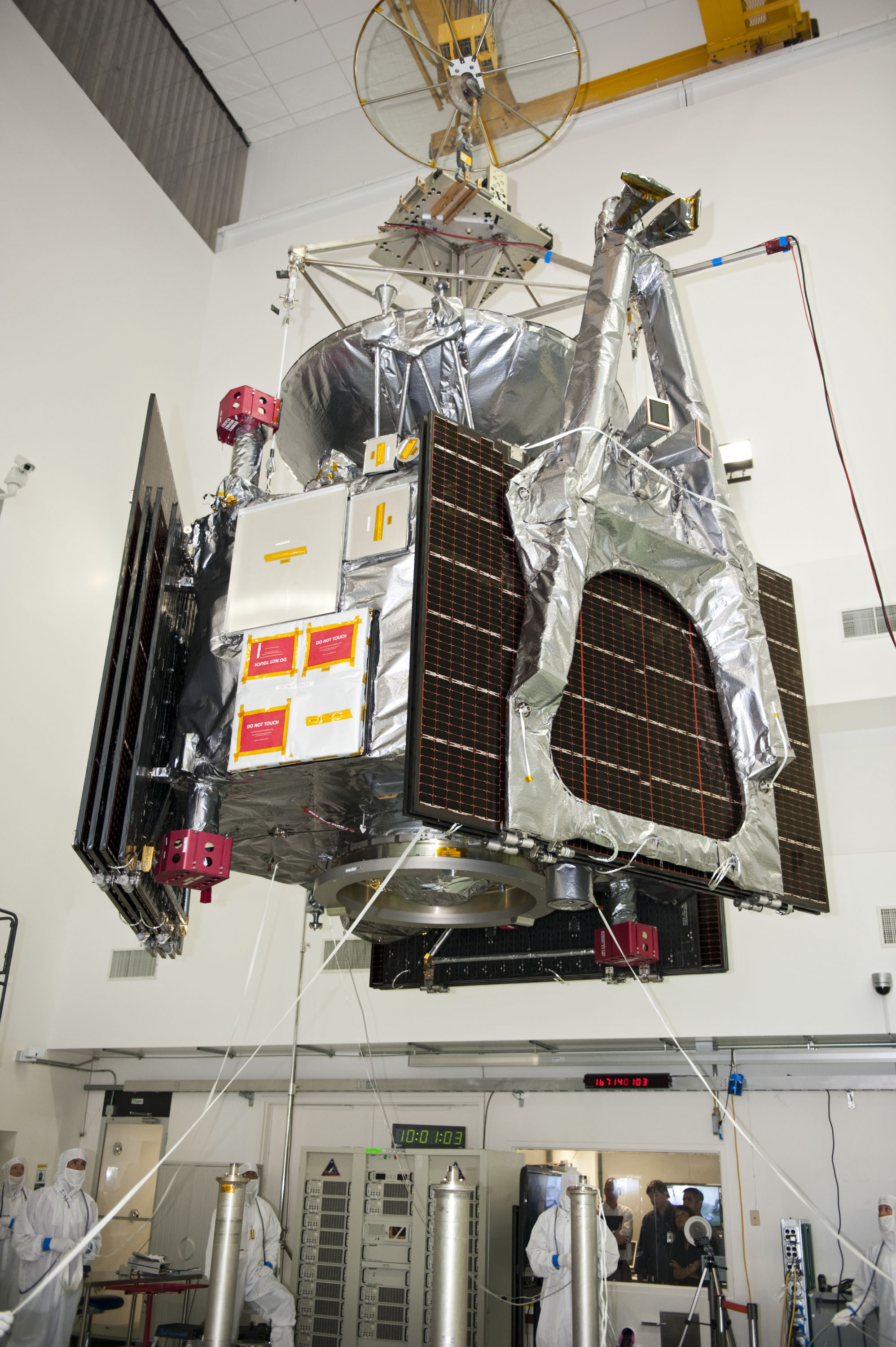 CAPE CANAVERAL, Fla. -- Technicians at Astrotech's payload processing facility in Titusville, Fla. monitor NASA's Juno spacecraft, as it is lifted by an overhead crane, for its move to a rotation stand for center of gravity, weighing and balancing testing. Juno is scheduled to launch aboard United Launch Alliance Atlas V rocket from Cape Canaveral, Fla. Aug. 5.The solar-powered spacecraft will orbit Jupiter's poles 33 times to find out more about the gas giant's origins, structure, atmosphere and magnetosphere and investigate the existence of a solid planetary core. For more information visit